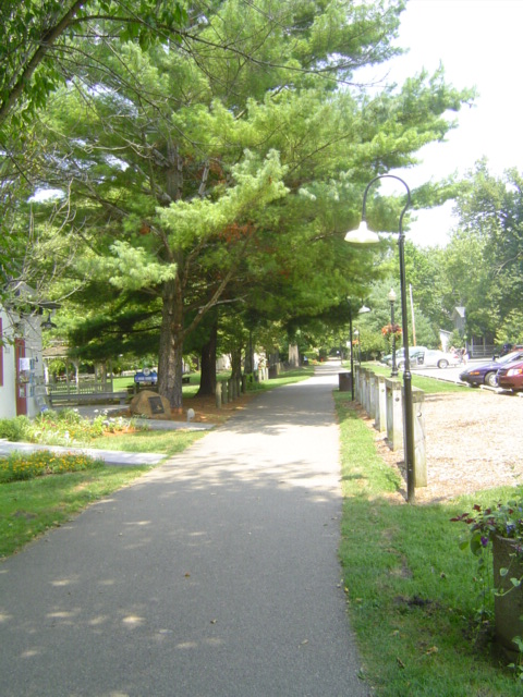 Loveland Bike Trail in Loveland, Ohio, looking north from West Loveland Avenue. Part of the Little Miami Bike Trail. Railroad Avenue can be seen to the right; C. Roger Nisbet Park to the left. Photo taken with a Sony DSC-P72.